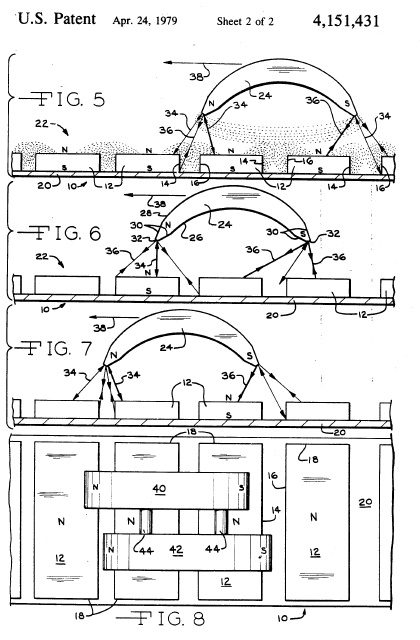 Image:USPatent4151431-1.png